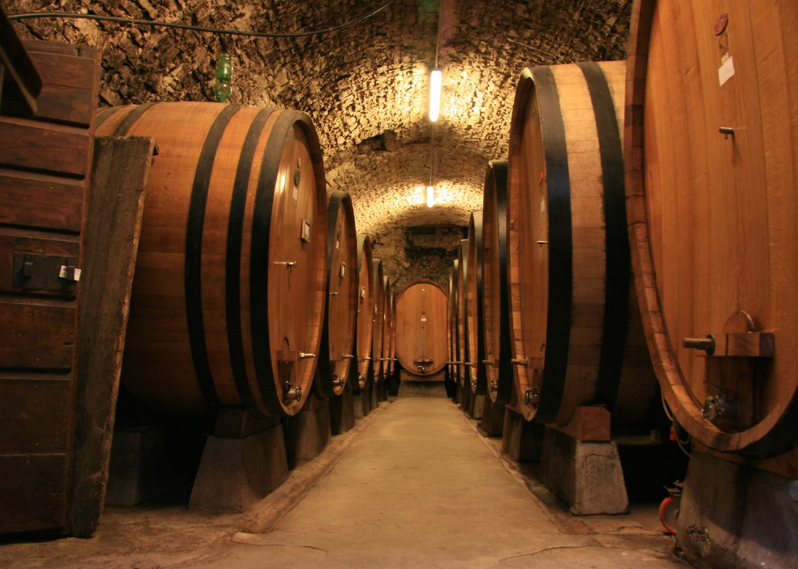 Oak barrels full of Chianti Classico wine in a wine cellar in Castellina in Chianti, province of Siena, Tuscany